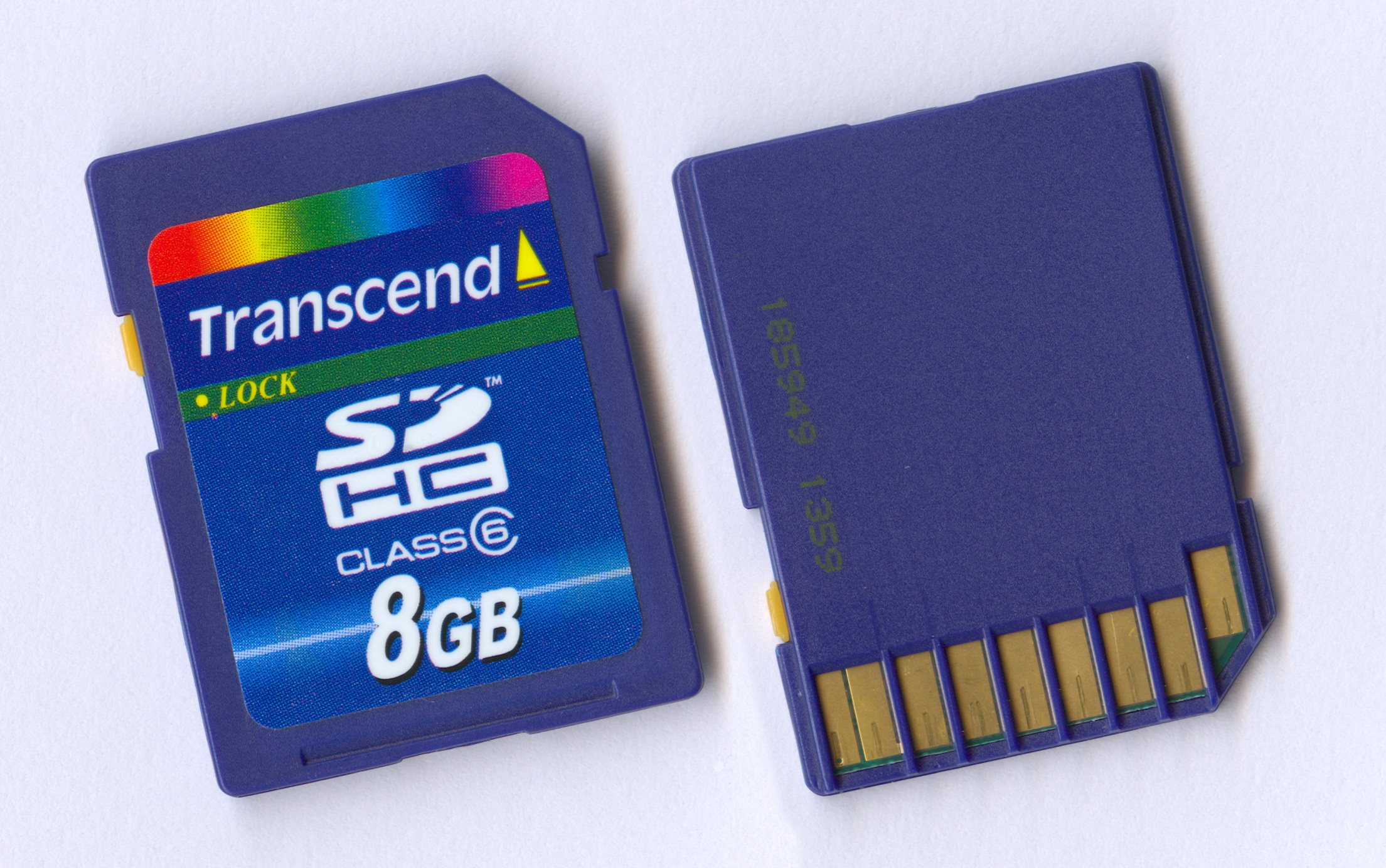 Transcend 8GB SDHC Class 6 Memory Card